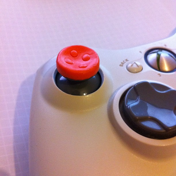 Sugru being used to fix an Xbox controller